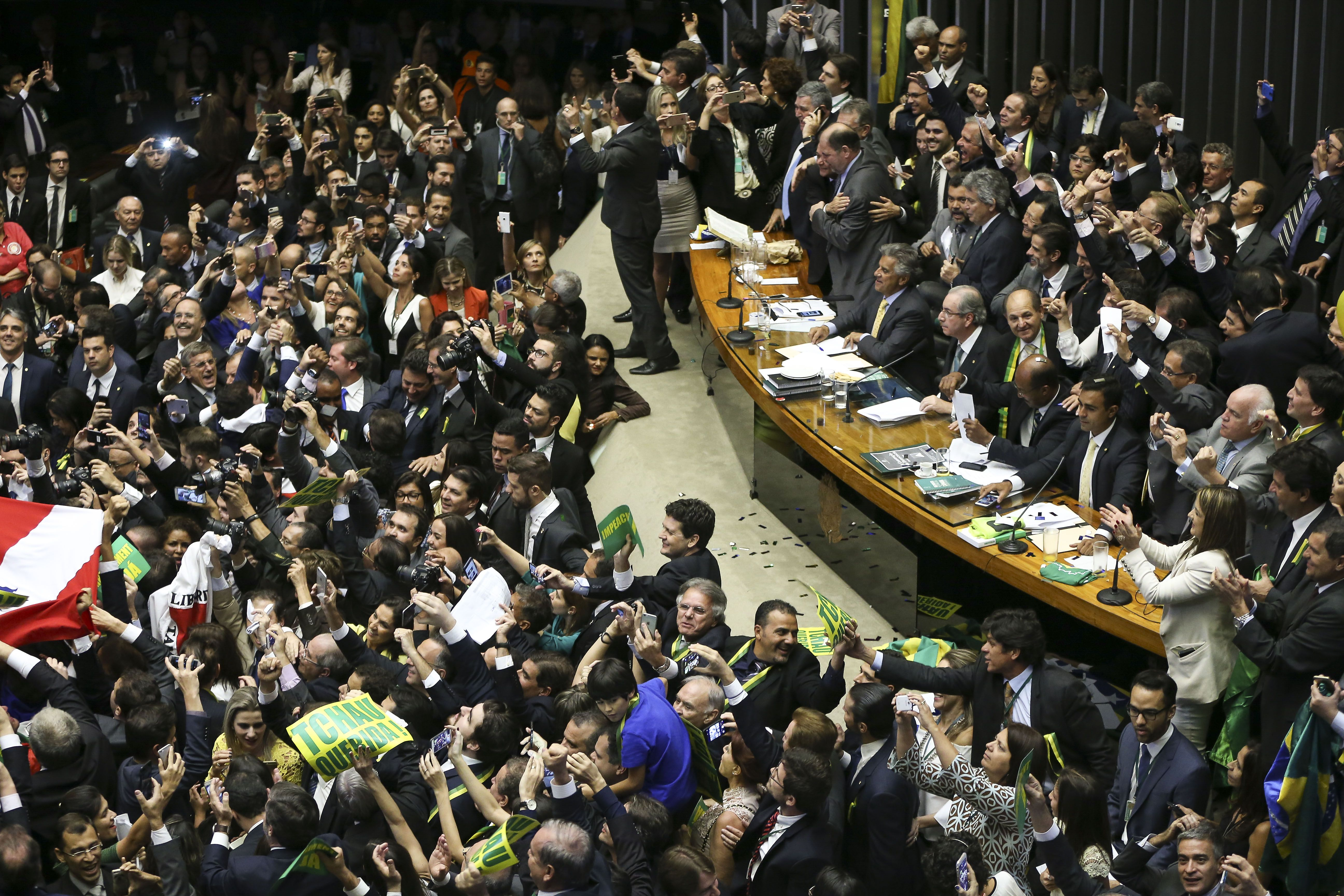 A vote being held in the chamber in favor of beginning impeachment proceedings against Rousseff.